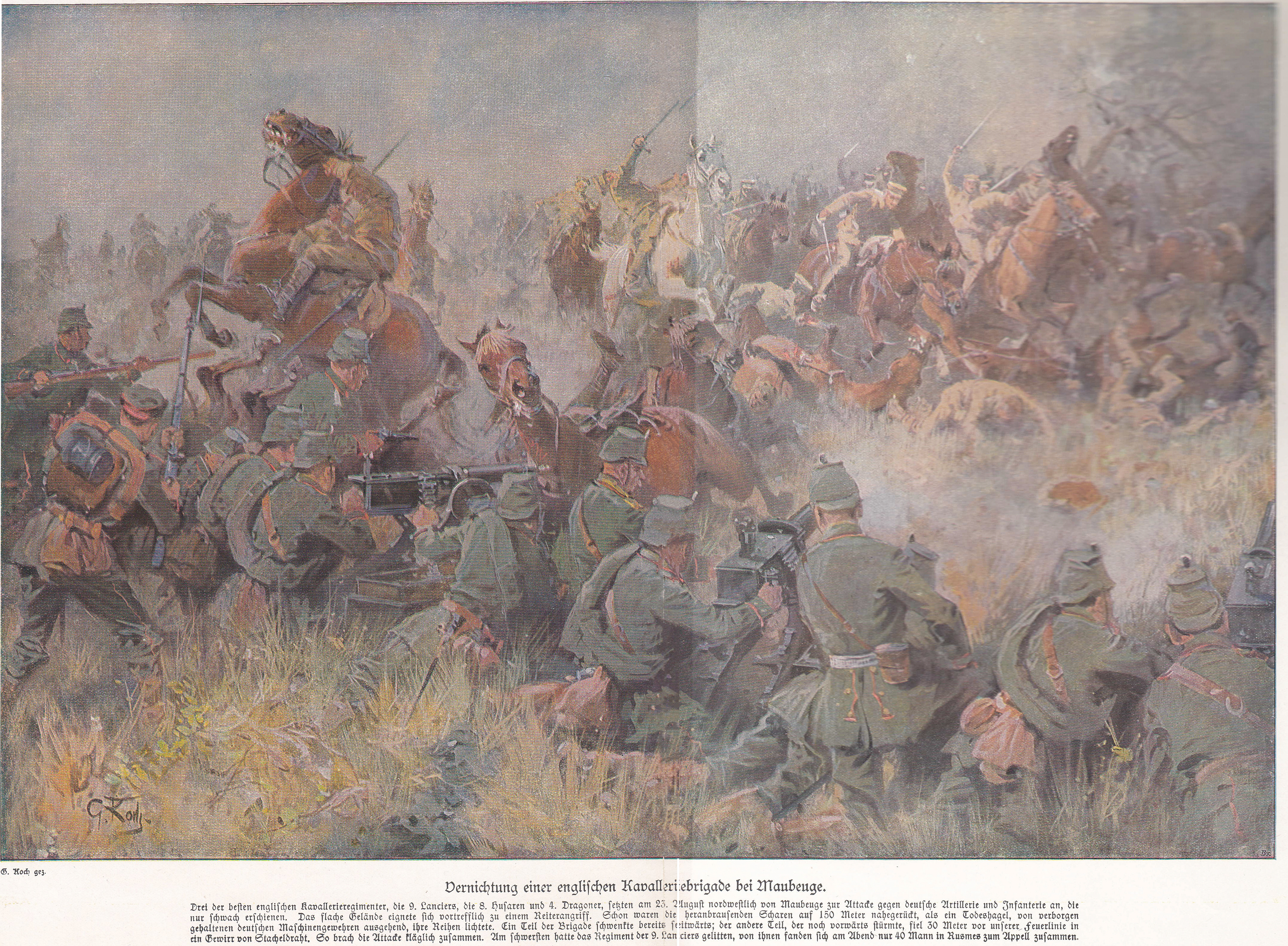 Illustration from the book: Der Krieg 1914/19 in Wort und Bild, published 1919